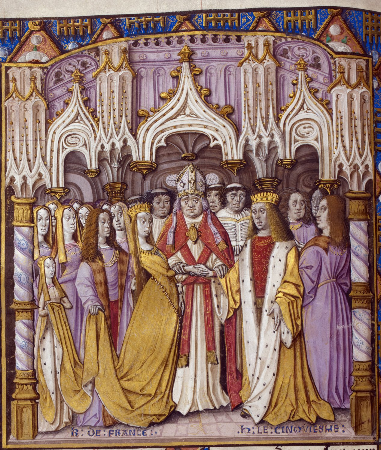 Marriage of Henry V of England to Catherine of Valois British Library, Miniature of the marriage of Henry V and Catharine de Valois: Jean Chartier, Chronique de Charles VII, France (Calais), 1490, and England, before 1494, Royal 20 E. vi, f. 9v.